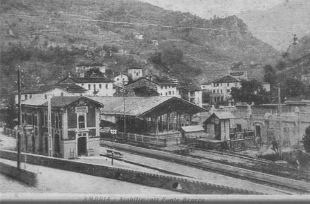 Ambria, mineral water works